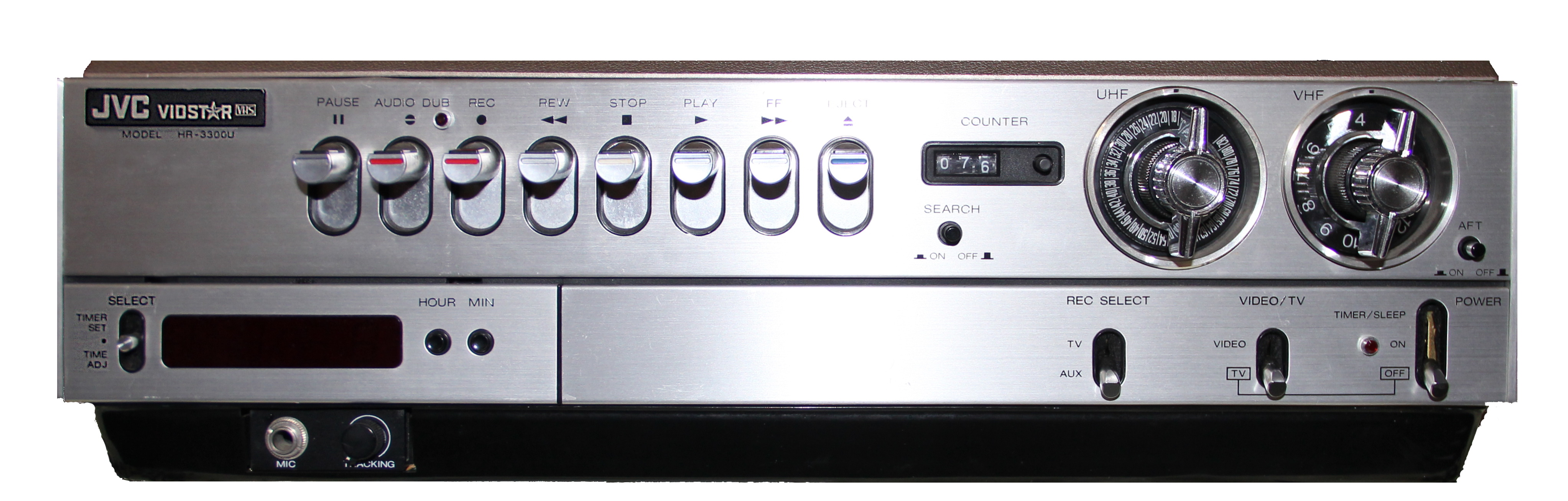 JVC HR-3300U VHS VCR. This is the United States release of the HR-3300. The HR-3300 is the world's first VHS-based VCR.